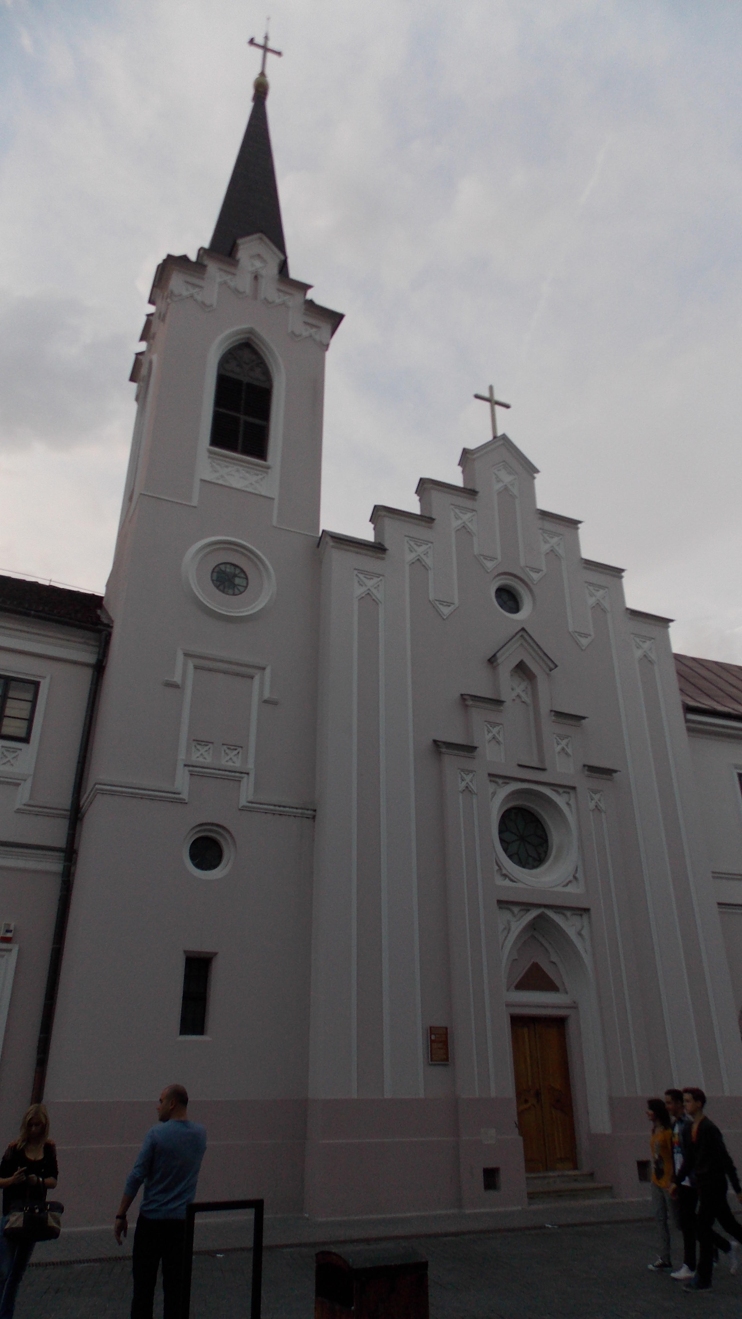 "St. Ana" Roman Catholic Church (former church of the Ursuline monastery) 01